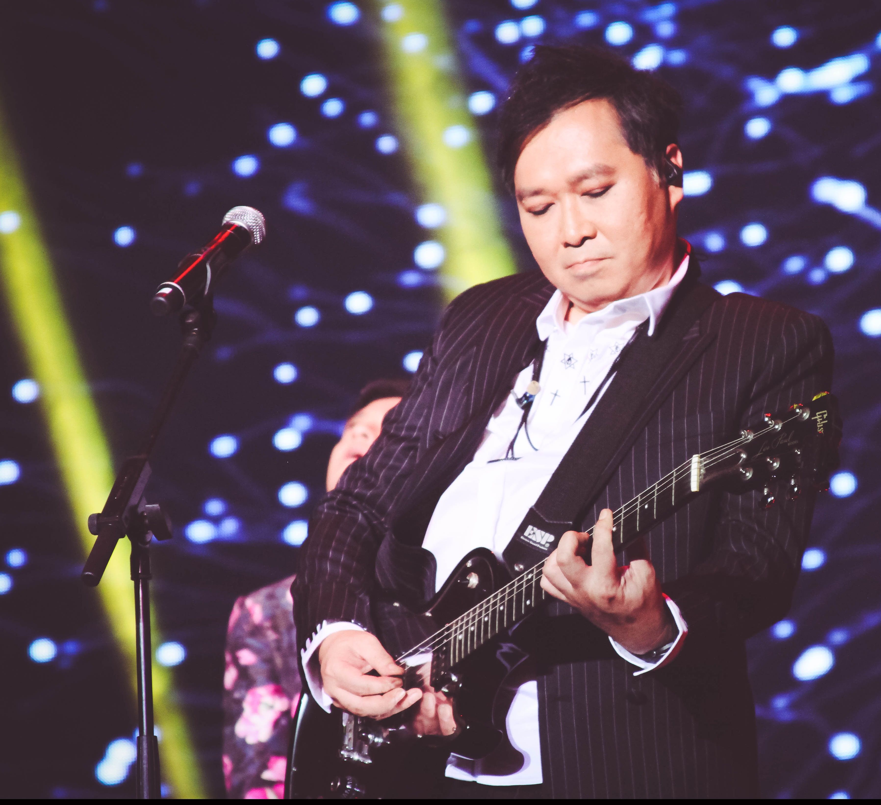 tat lau in polygram show 2014